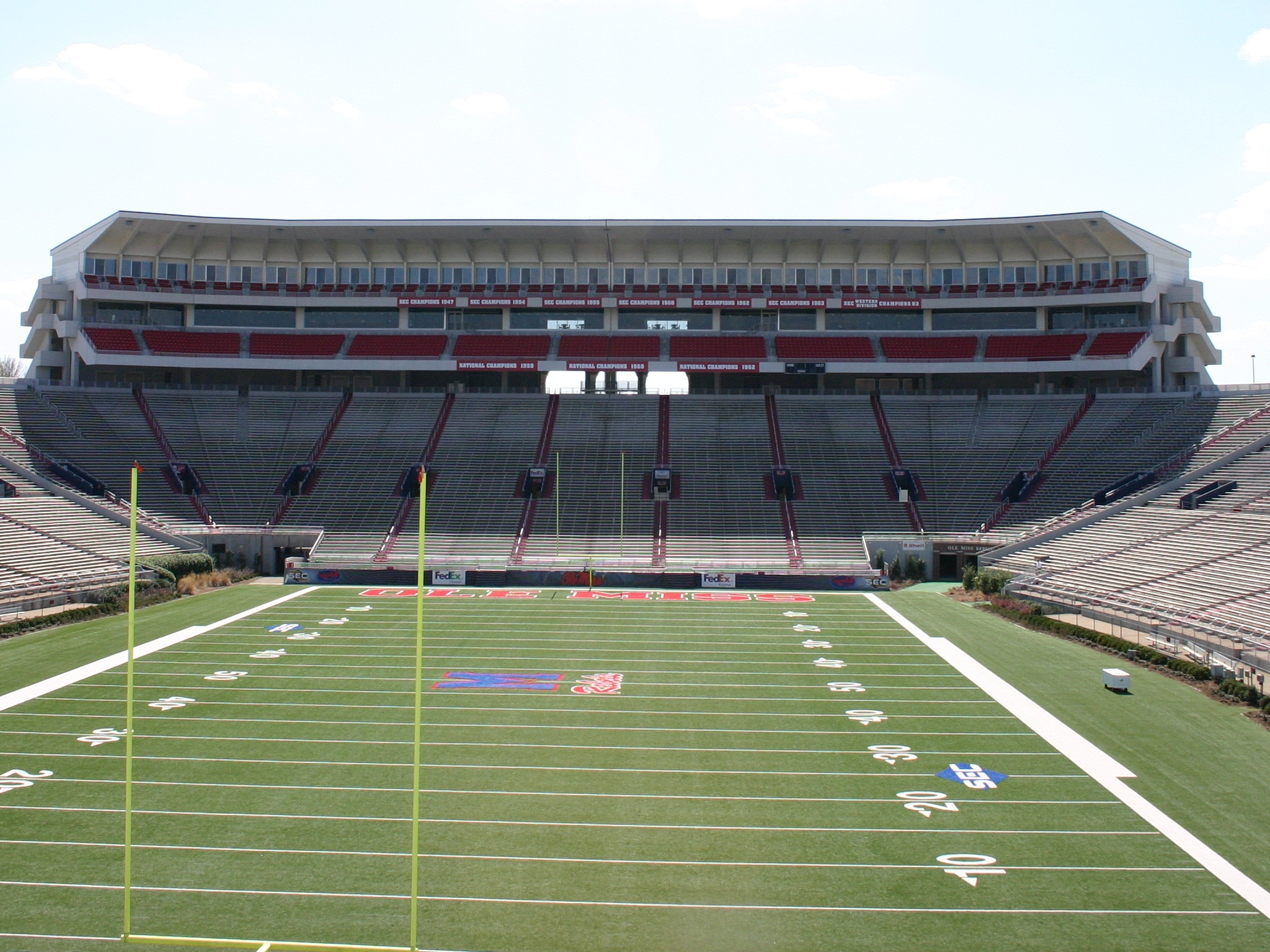 I took this picture myself in the Spring of 2005.